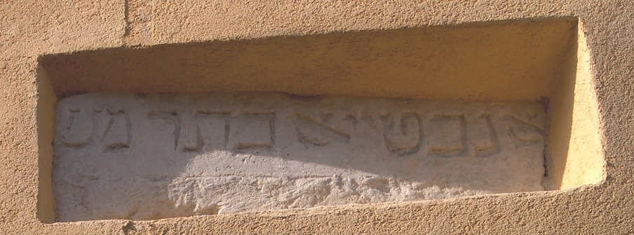 An old Hebrew inscription on a wall in the village of Gerace in Calabria, Italy. The inscription was kept despite the renovation of the building. It indicates Jewish presence in the village, sometime during the history of the village. The Inscription reads: אנכטייא כתר מש. While unclear, the fragment may be a part of a larger inscription that ends with 'The crown of Moses' or Keter Moshe.